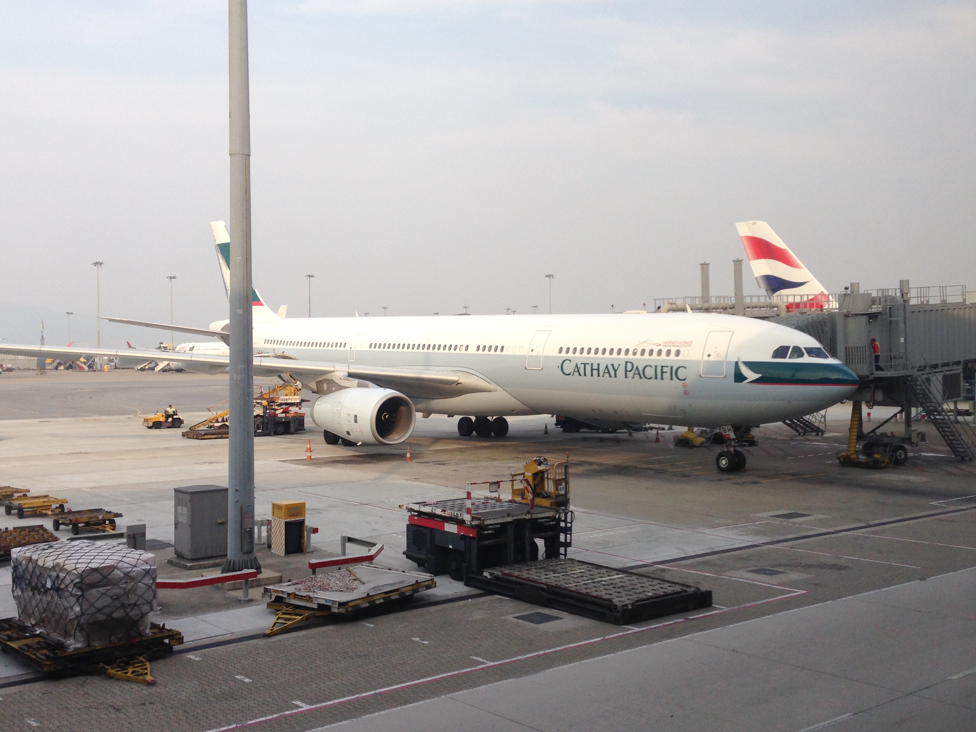 Cathay Pacific A330 B-LBH at HKG as seen from the CX Pier lounge